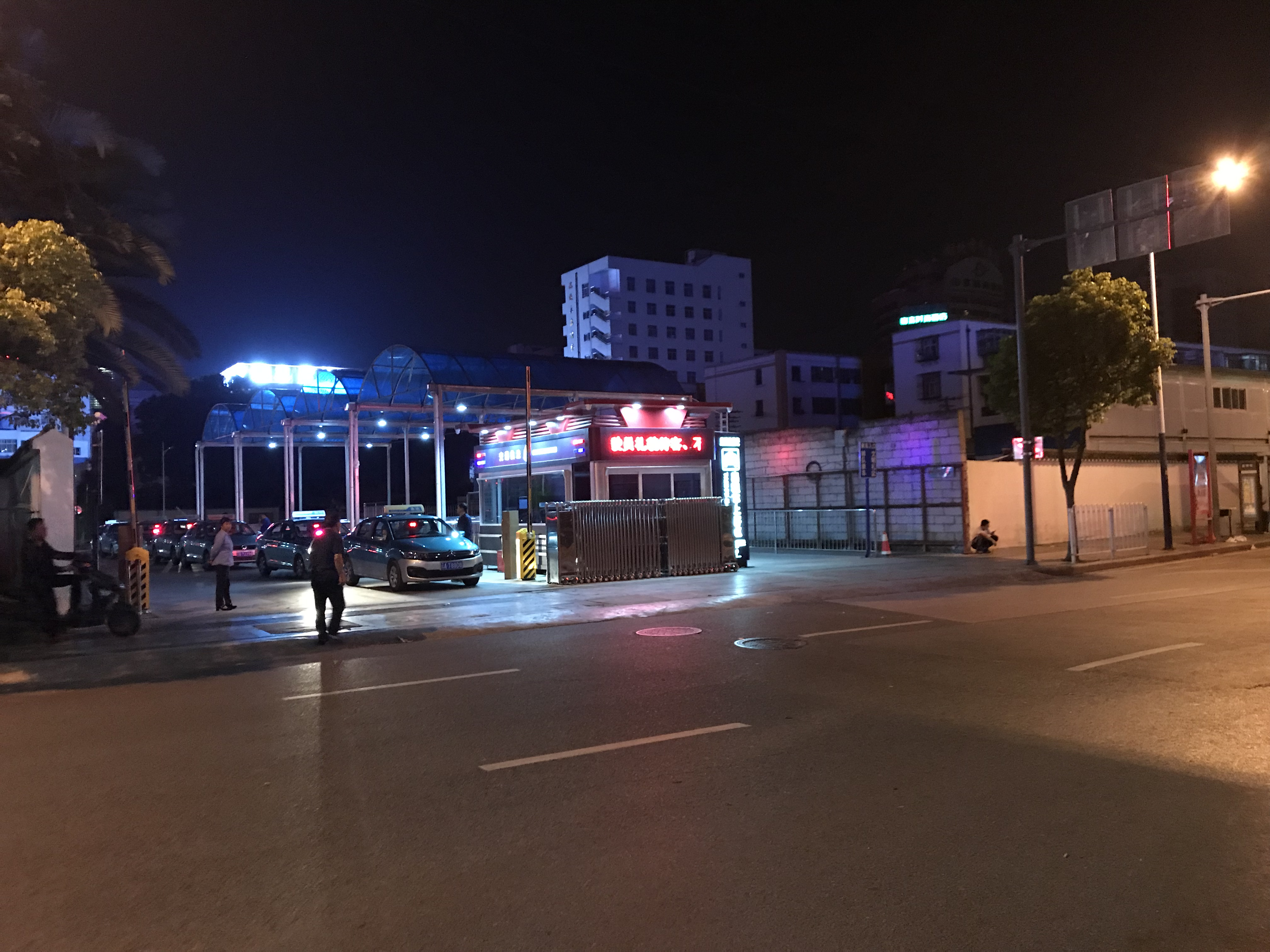 201908 Taxi Stand at Kunming Station